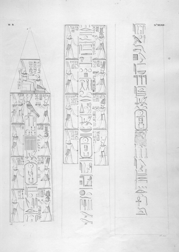 Plate from "Monumenti dell'Egitto e della Nubia", a work published in Pisa, Italy, containing hieroglyphics and reliefs taken from monuments in Egypt and Nubia. The shelfmark for this item is SAC:333 Ros. Original caption in Italian publication: "Grande obelisco di Karnac della regina Amensa" "Great Obelisk at Karnac of Queen Amensa"